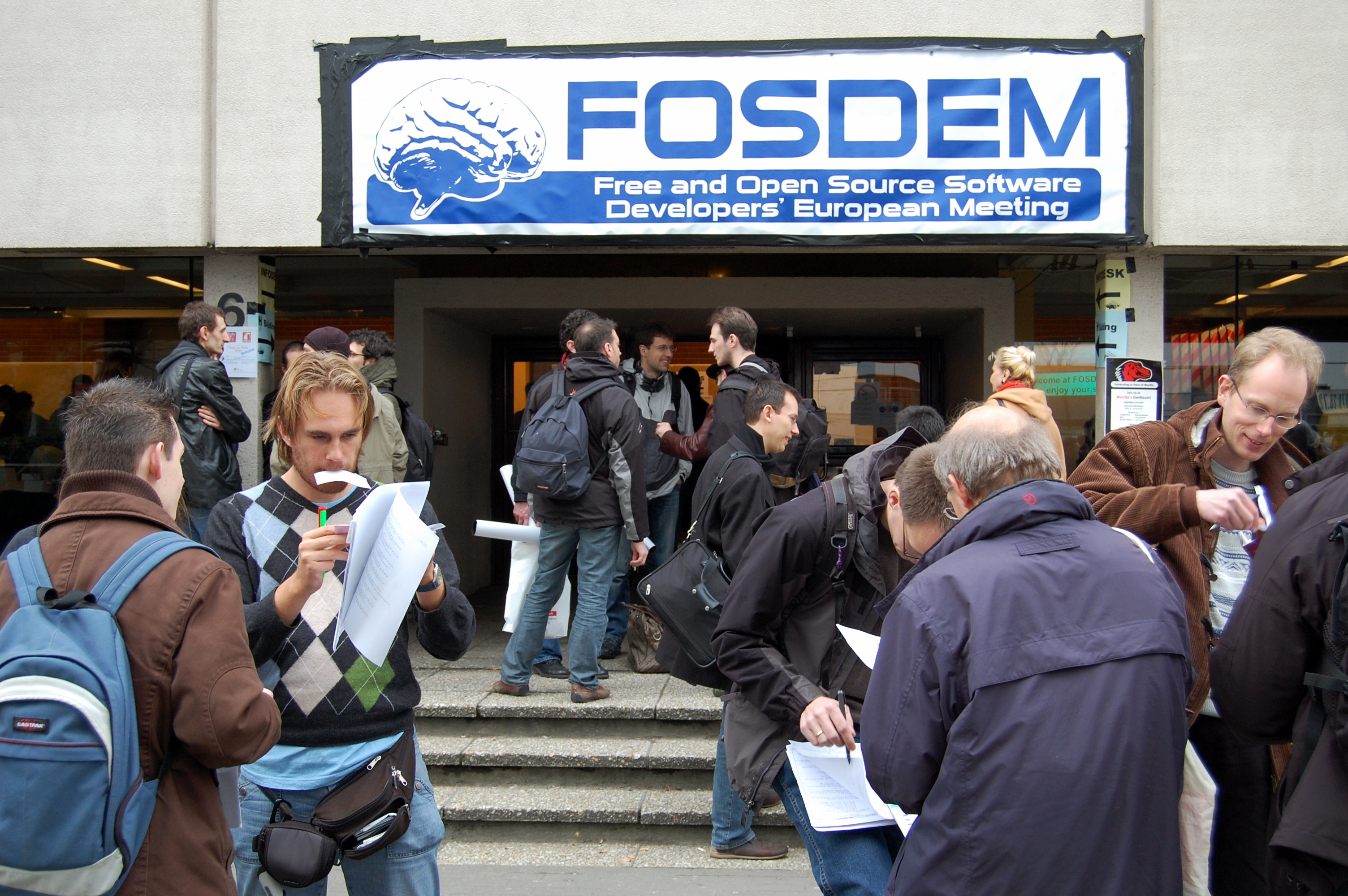 Picture from FOSDEM 2008.